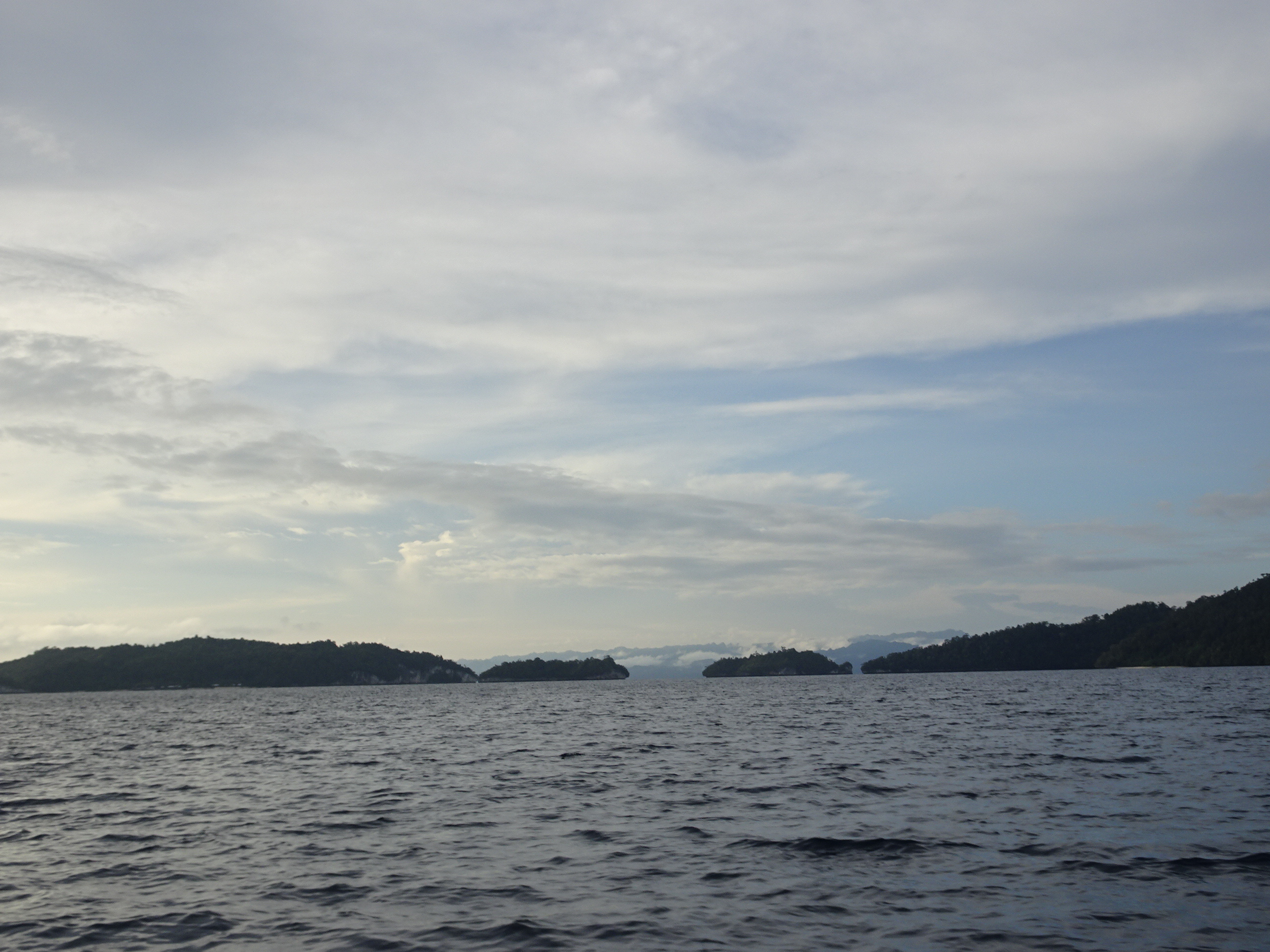 Panorama of islands in Dampier Strait approximately 20 miles from Sorong, Indonesia